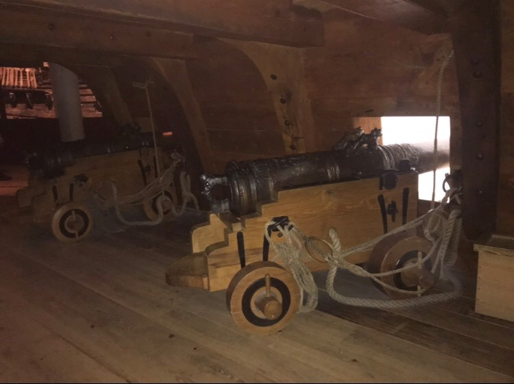 An area where the lower deck of the sunken Vasa is replicated